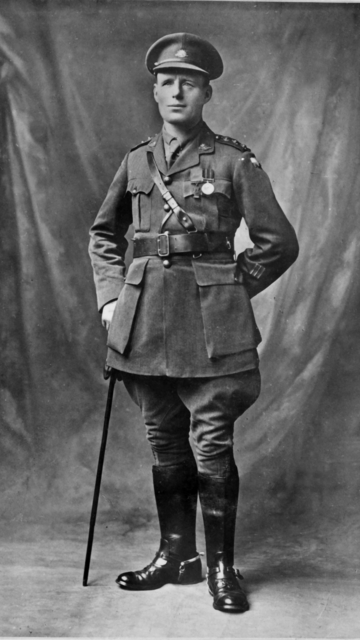 Studio portrait of Captain James Ernest Newland VC, an Australian recipient of the Victoria Cross during the First World War.